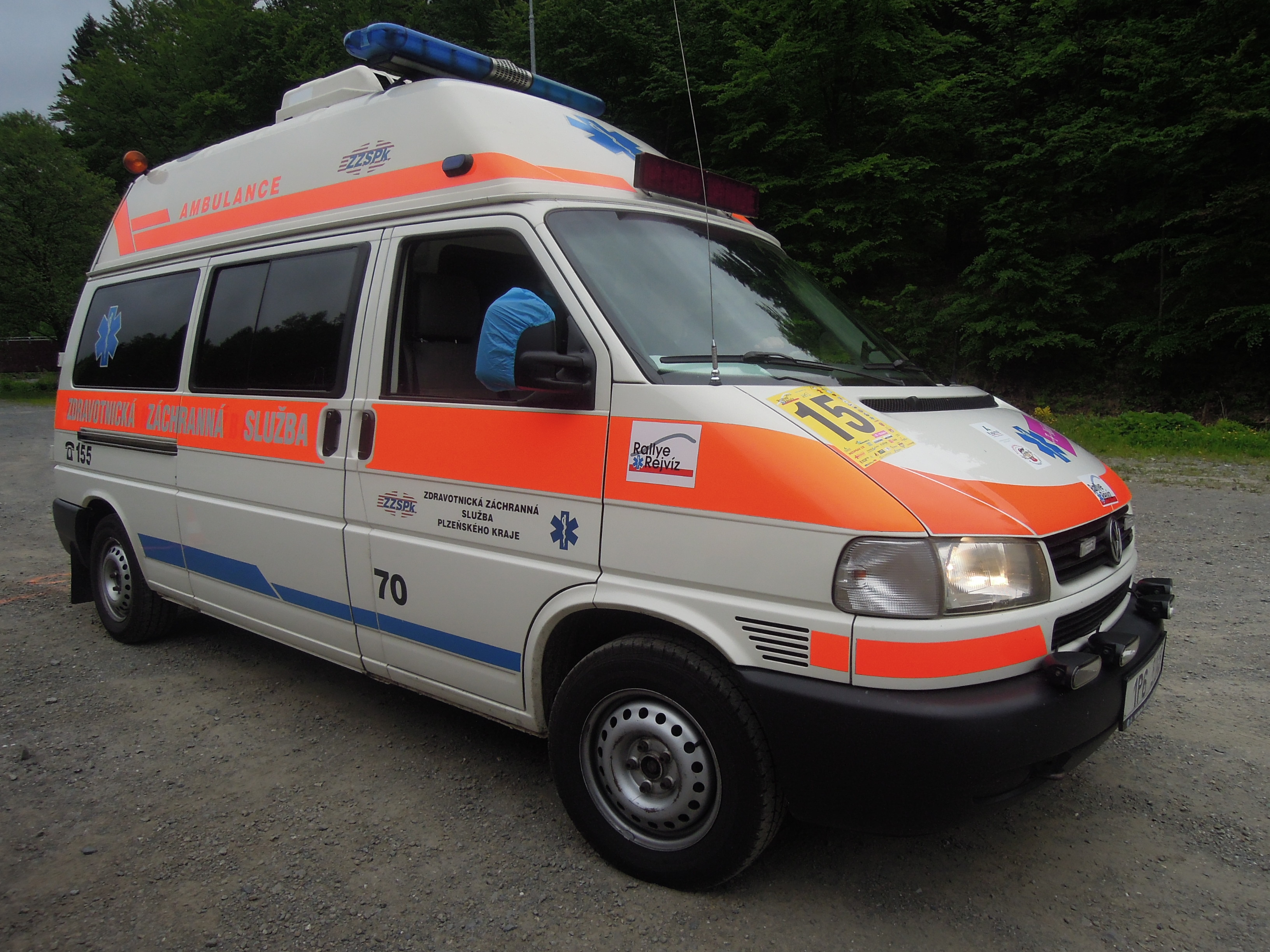 Volkswagen Transporter T4 ambulance of Zdravotnická záchranná služba Plzeňského kraje. Photo was taken during the international competition Rallye Rejvíz 2013 in Kouty nad Desnou, Olomouc Region, Czech Republic